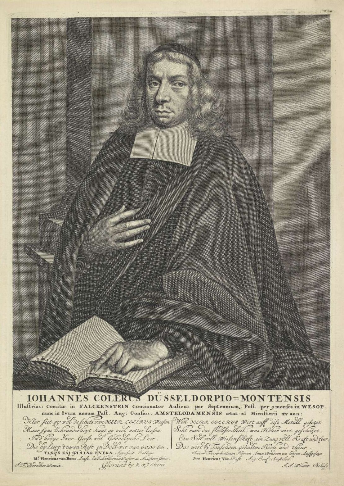 Portrait of the preacher Johannes Colerus, at the age of 40. He points to a line in an open Bible. In the margin the name of the person portrayed, and two lines of biographical data in Latin. Among them a four-line praise poem in Dutch and German. Wielant, Johann Friedrich Bodecker, Henricus Vos, Henricus van Born, Reinier Ottens (I) & Josua Ottens are mentioned on the object.